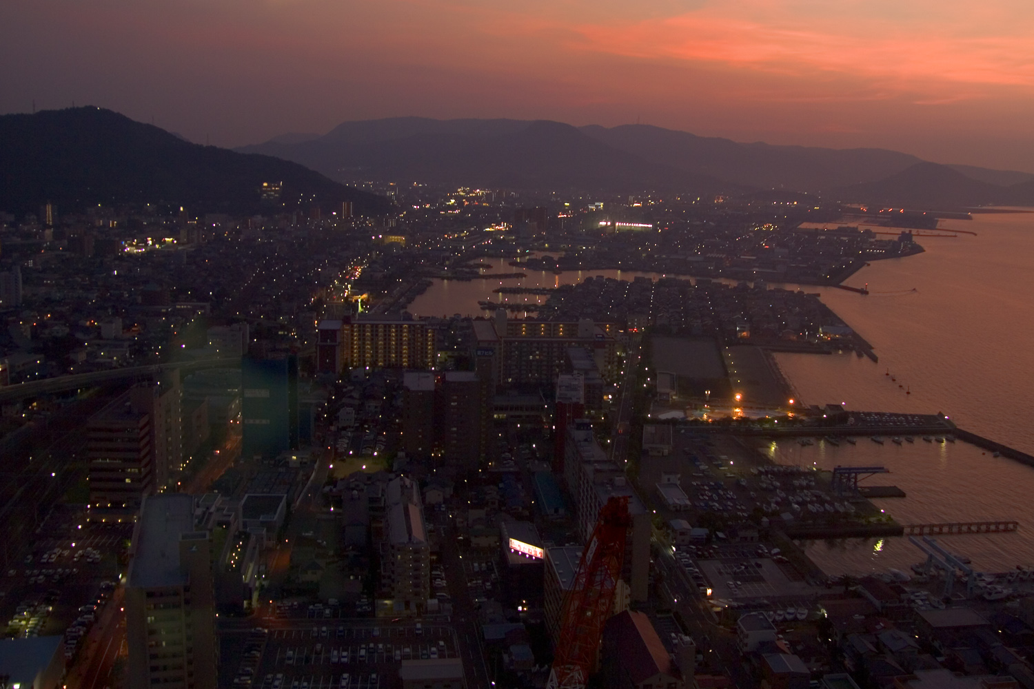 This photograph shows a night (sunset) view of the harbor of Takamatsu, Kagawa Prefecture, Japan. I took this photo from the top floor of the 30 story Symbol Tower.